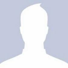 Depicted person: Benedetto Marcello, mistakenly described as Antonio Lotti